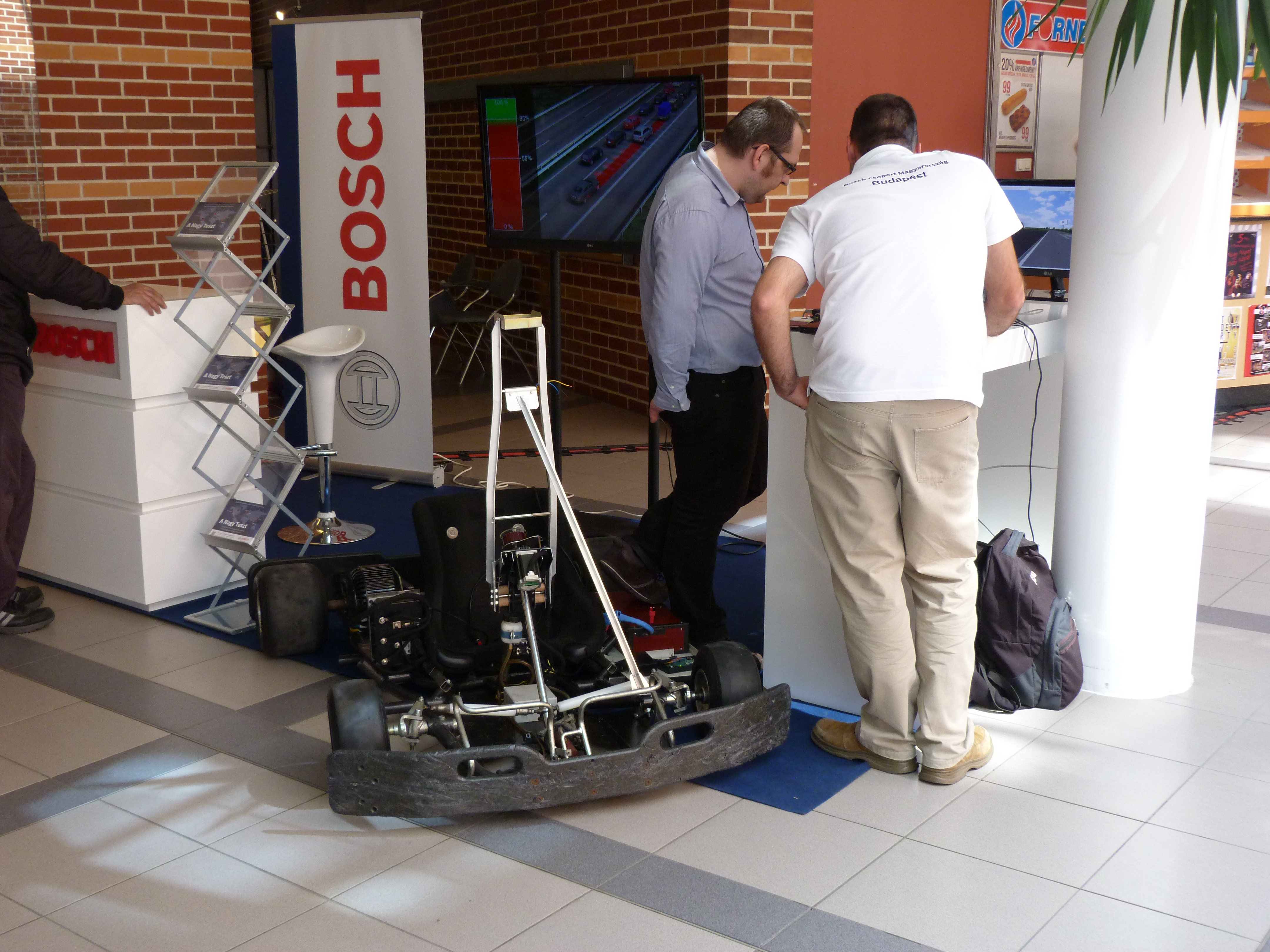 XI. Simonyi Conference – 2014.04.15 Live on the 15th of April, 2014. Budapest, Budapesti Műszaki Egyetem. The Simonyi Conference is the greatest student organized professional event of both the Vocational College and the Faculty of Electric Engineering and Informatics. Simonyi Károly (father of Charles SimonyI) worked at the Budapesti Műszaki Egyetem, his lectures and engagement for engineering science was outstanding. Detailes in Hungarian. Sources